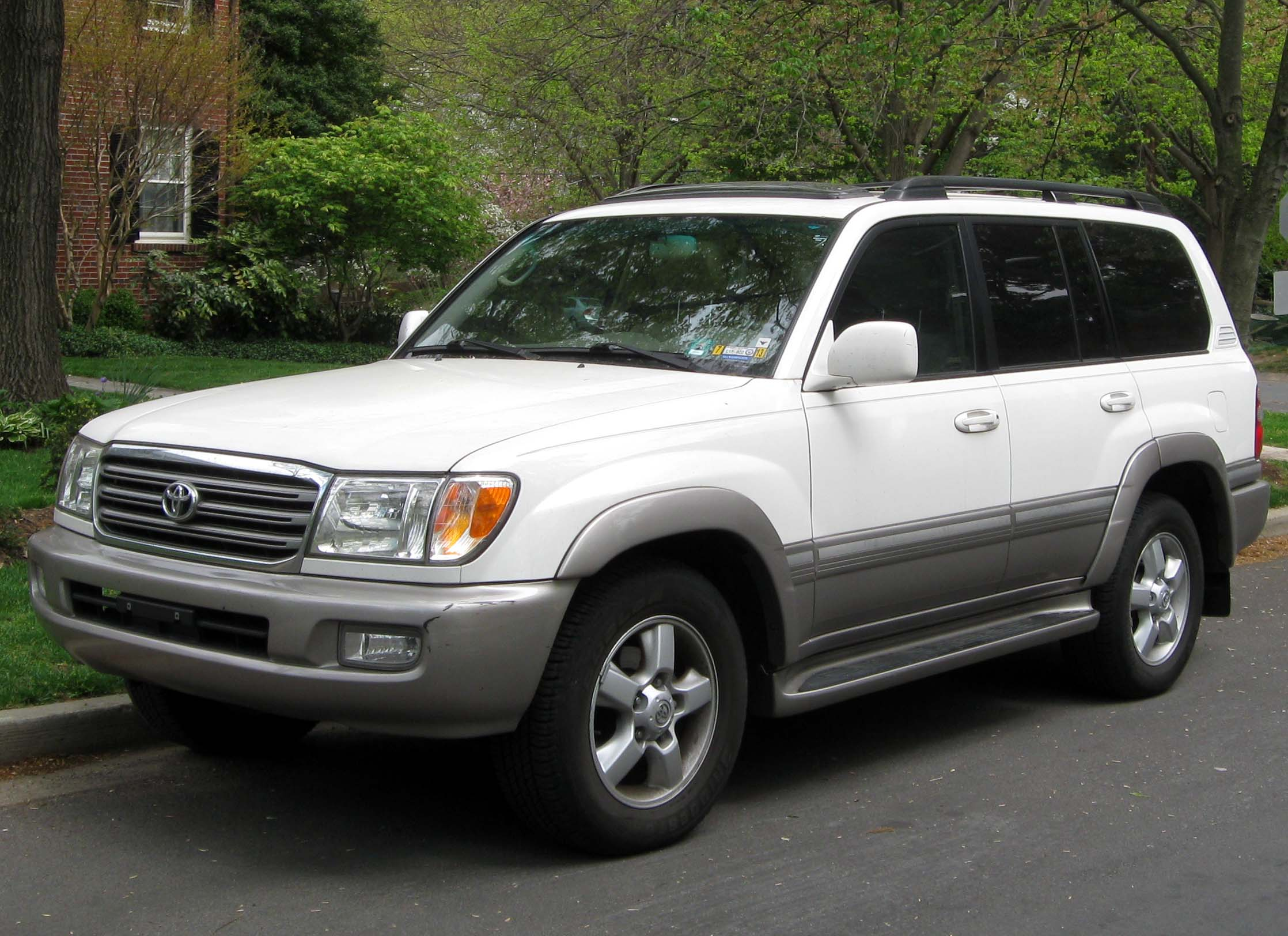 2003-2007 Toyota Land Cruiser photographed in Chevy Chase, Maryland, USA.